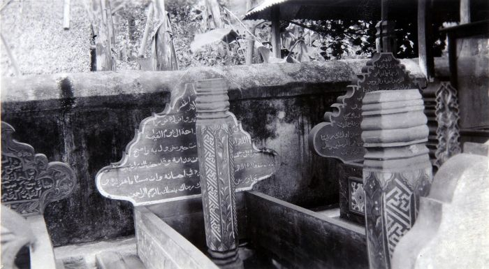 The grave of the last king of Goa at Djongaja